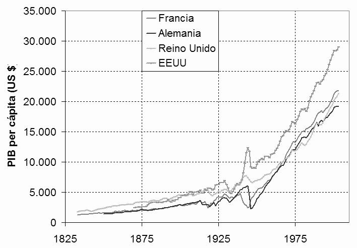 Comparative "GDP per capita" for USA, Germany, France and UK, based on World Population, GDP and Per Capita GDP, 1-2003 AD